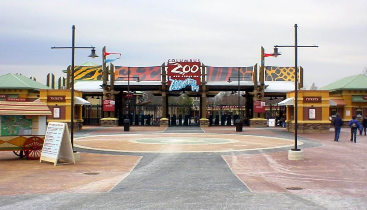 Front gate of Columbus Zoo and Aquarium.